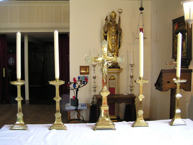 Titanic Memorial inside St Augustine of Hippo Church This is a memorial to a James Paul Moody, 6th Officer on R.M.S. Titanic, drowned in the North Atlantic, April 10th, 1912. The inscription is on the horizontal arm of the silver crucifix.